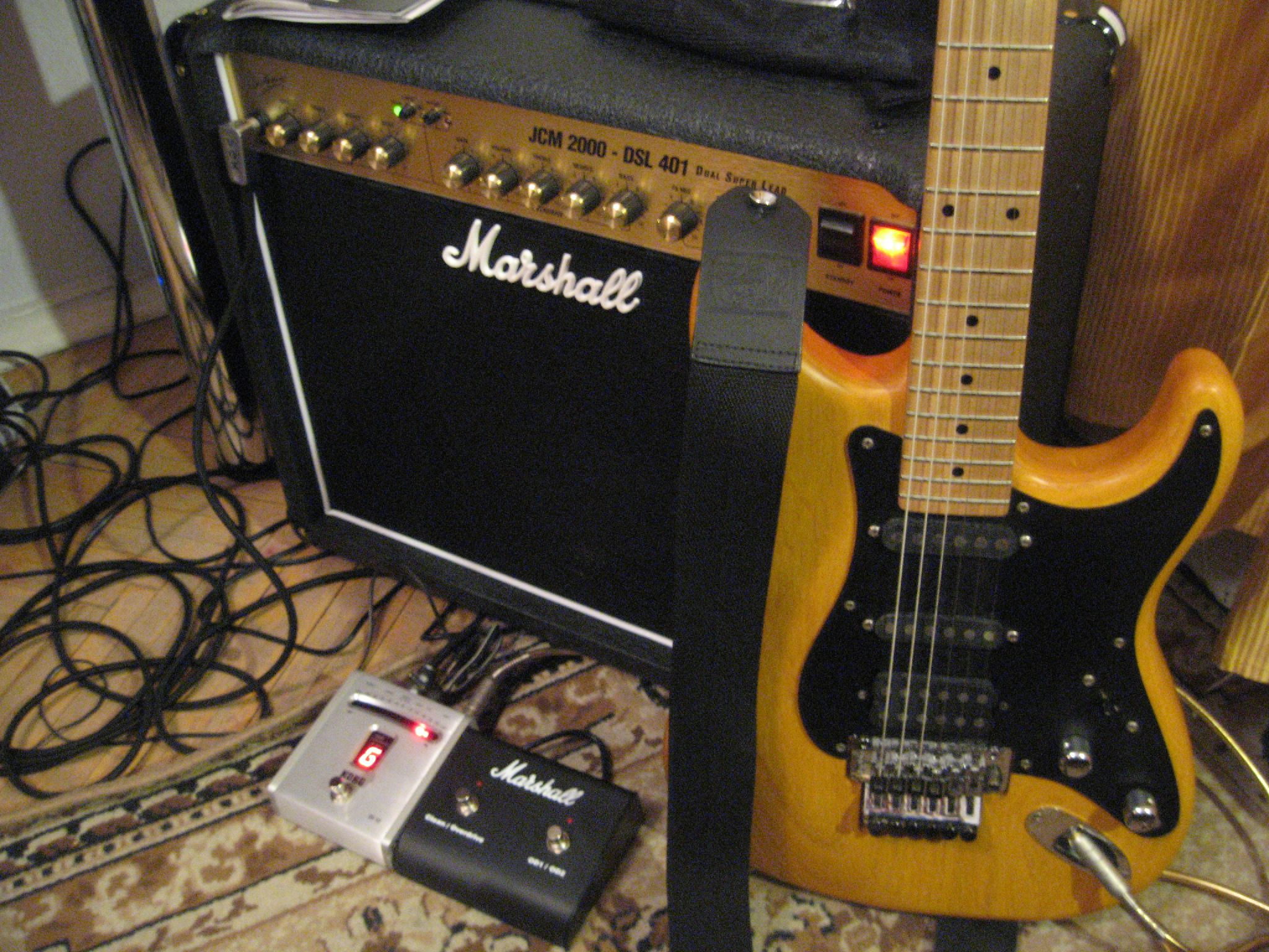 Schecter guitar Marshall JCM2000-DSL401 Korg DT10 Digital Tuner